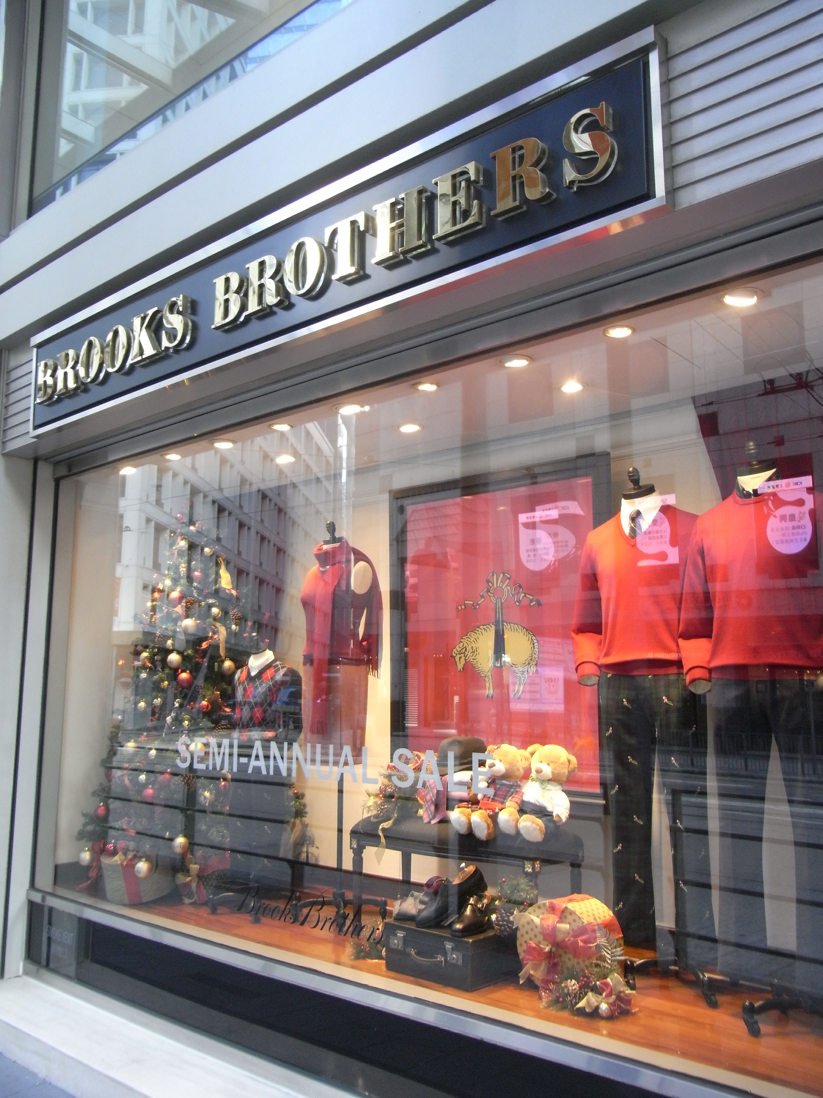 中環 太子大廈